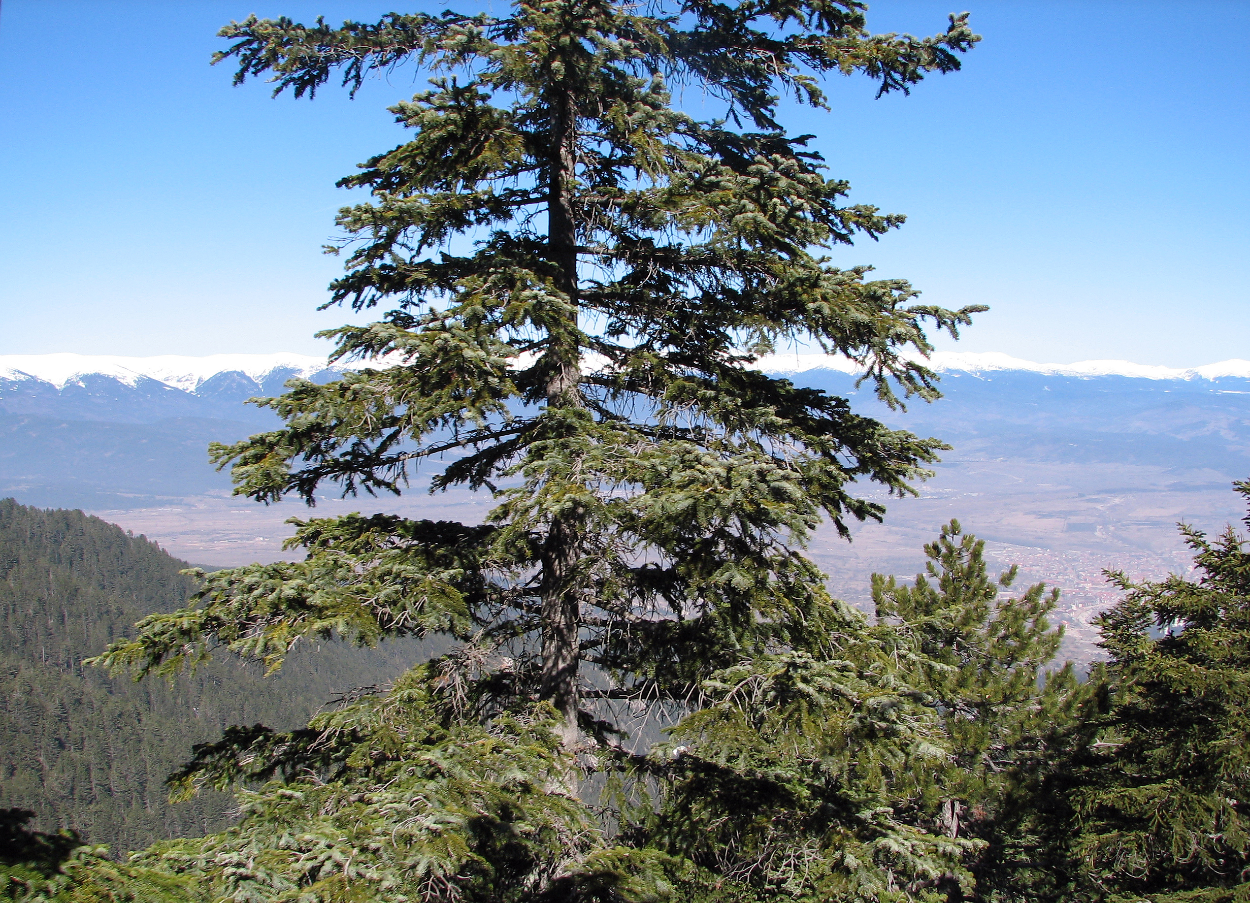 Abies borisii-regis central part of a tree. Pirin Mountains near Bansko, Bulgaria, 41°48'32"N 23°28'12"E, 1190 m altitude.